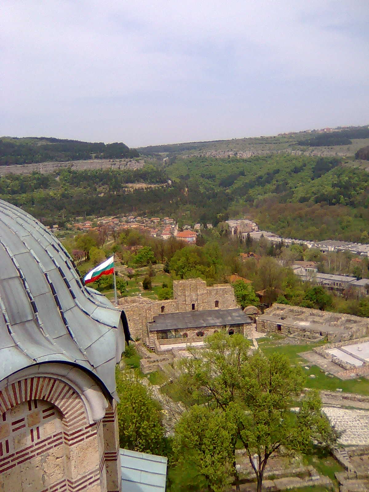 Hisary Fortress over Lovech